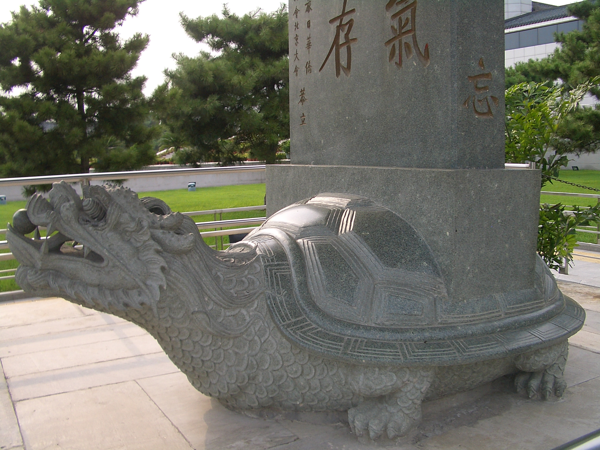 The bixi-supported stele with the inscription "民族正气浩然长存" ("People's Righteousness Will Abide", or something like this) on the grounds of the Memorial Hall of the Chinese People's War of Resistance Against Japanese Aggression, inside Wanping Fortress, Beijing.